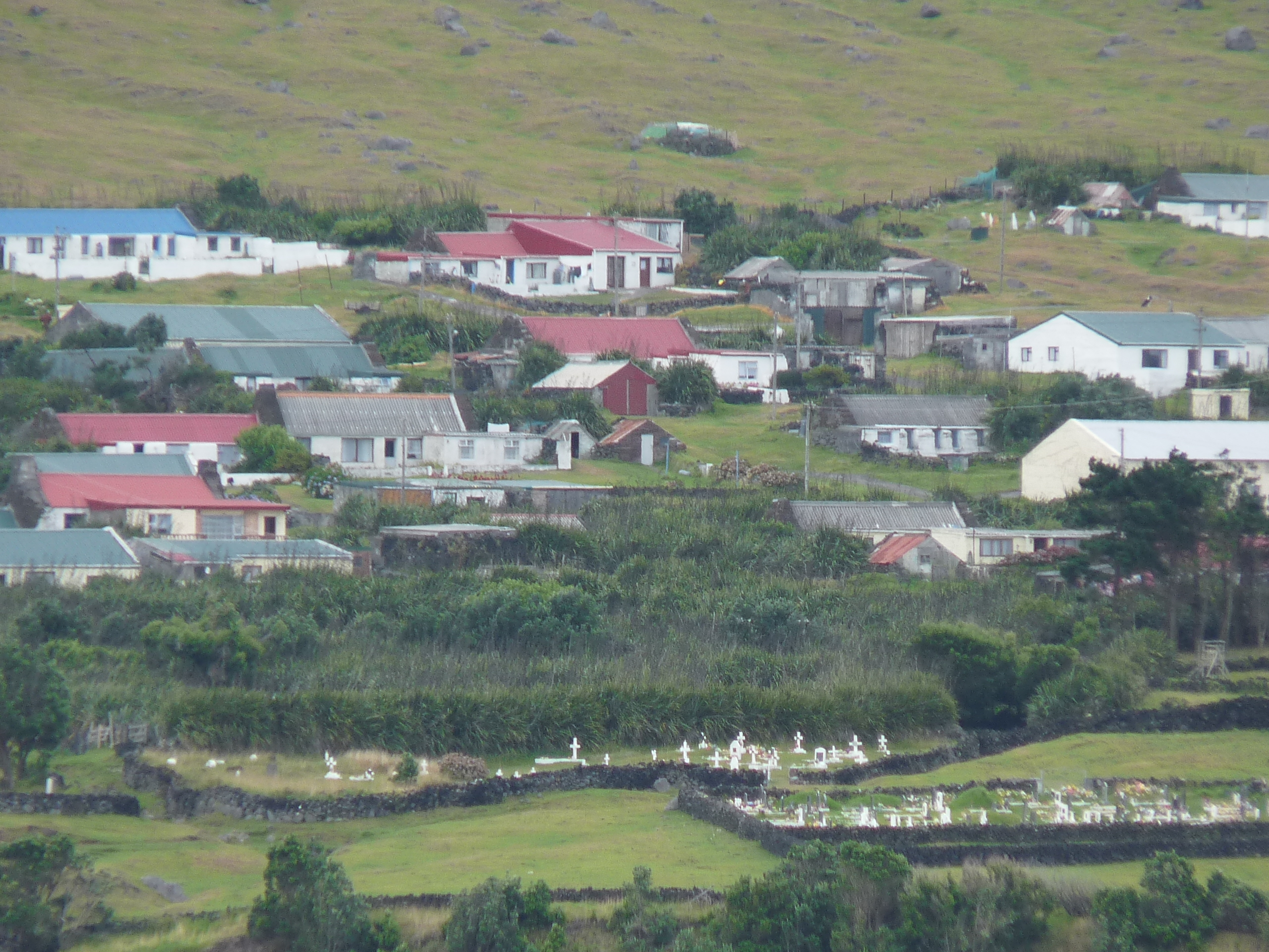 View of Edinburgh of the Seven Seas, Tristan da Cunha